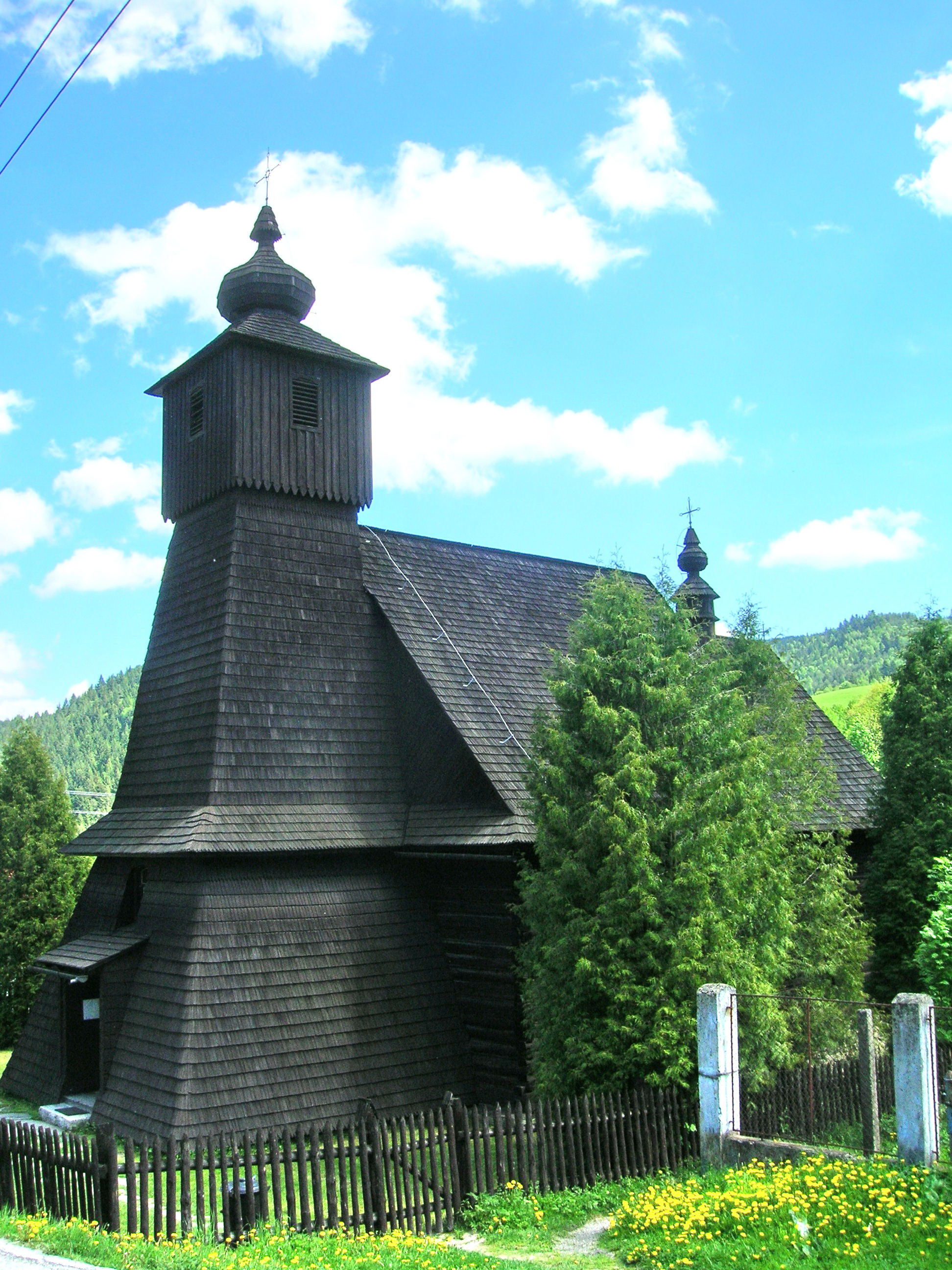 wooden church in Hraničné near Stará Ľubovňa, Slovakia